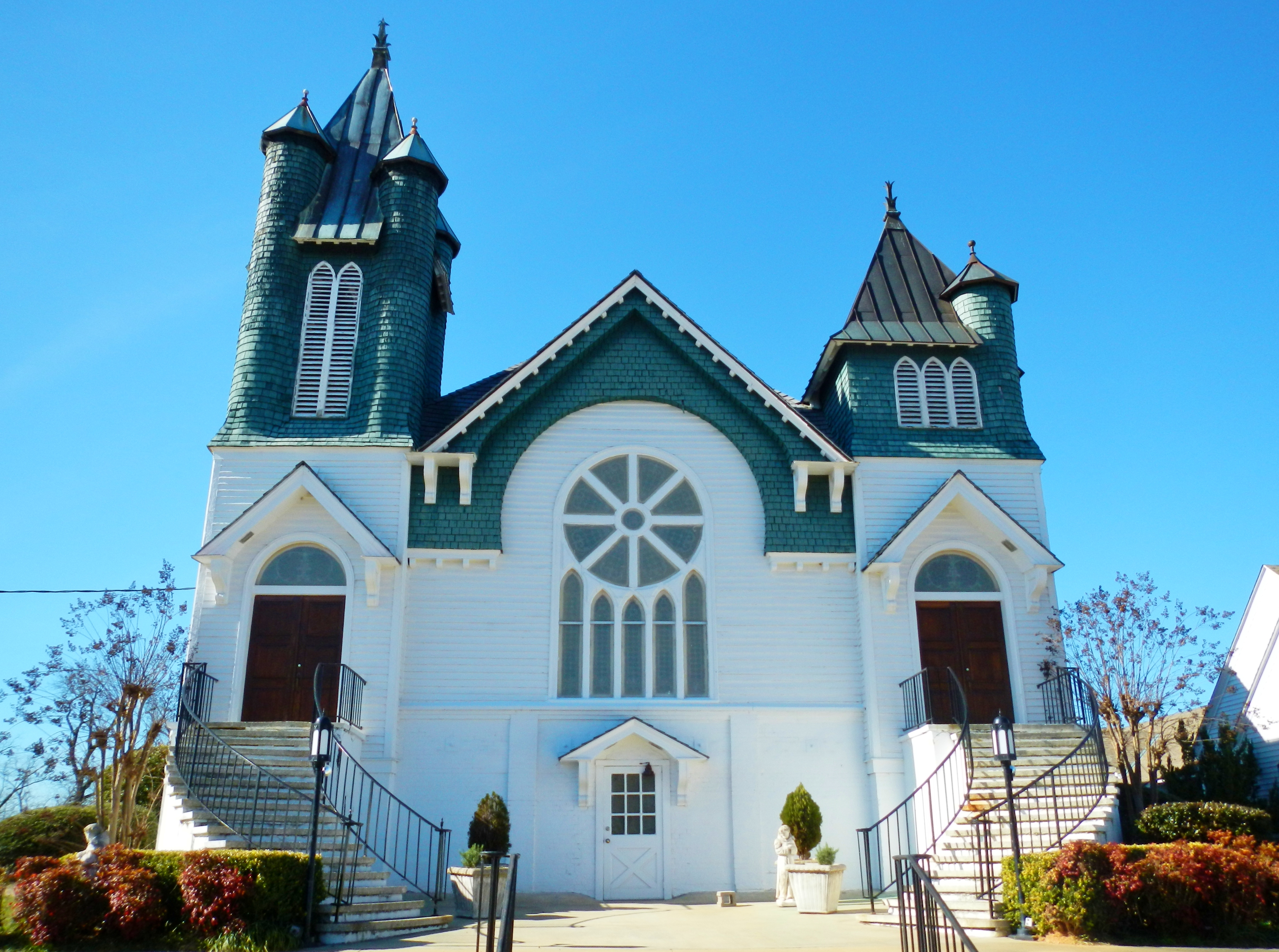 This is a photograph of Fort Deposit United Methodist Church in Fort Deposit, Alabama.